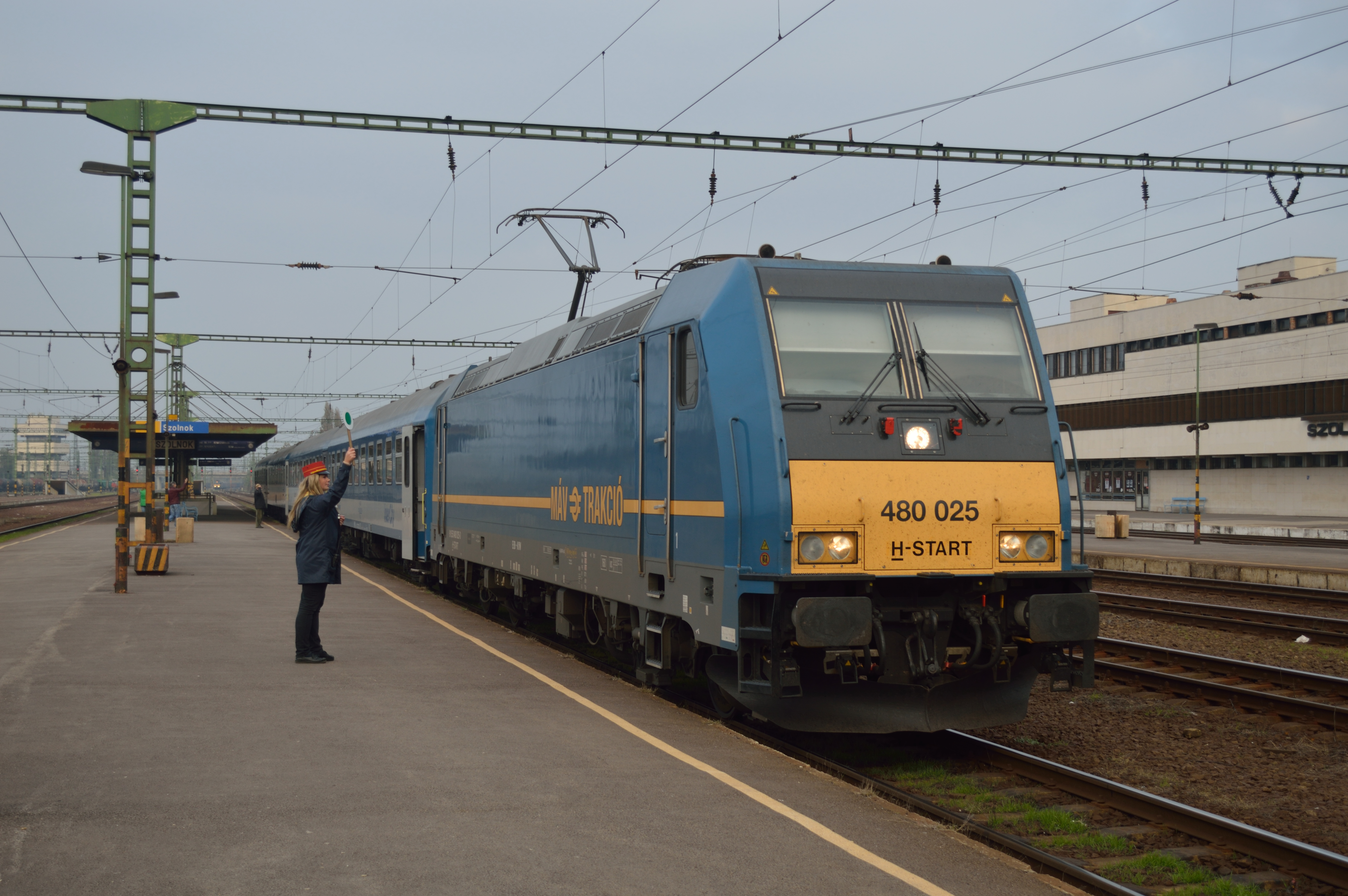 Train IC615, 13:32 Nyíregyháza to Budapest-Nyugati pu. hauled by 480.025 is being given the right of way by the red cap at Szolnok on 1 November 2014.